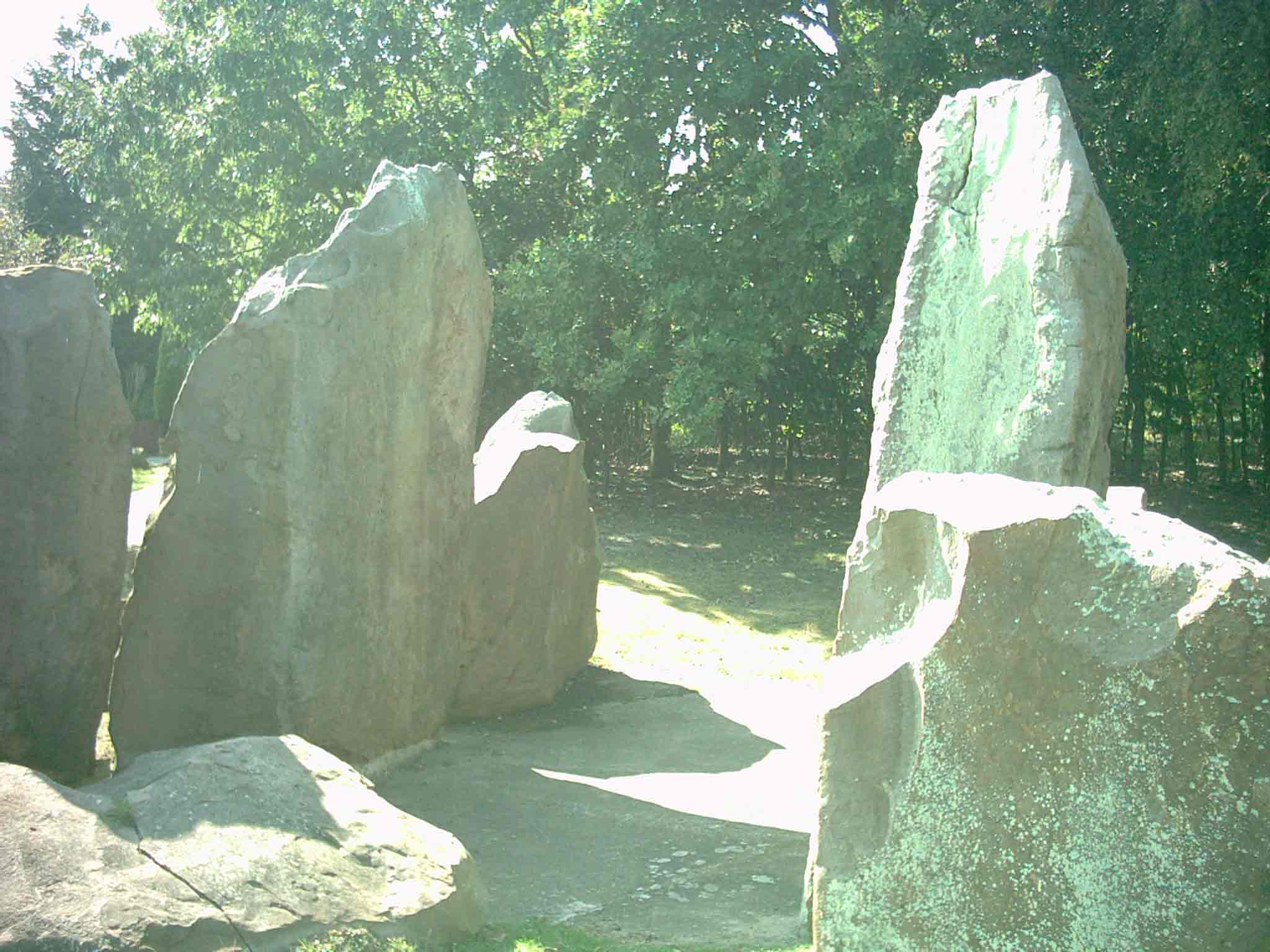 View looking west through the burial chamber at Chestnuts long barrow in Kent with facade stones visible on either side.